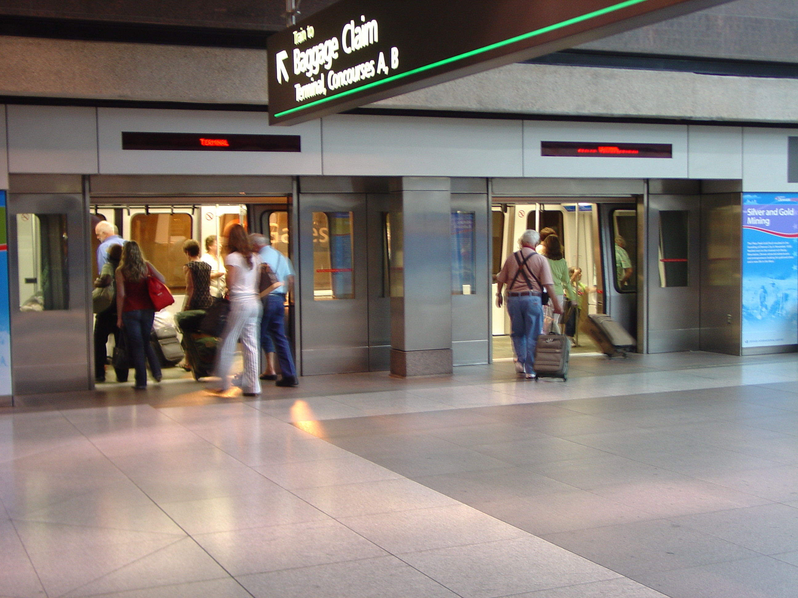 Denver International Airport Train